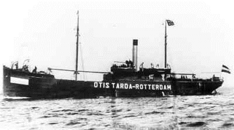 SS. Otis Tarda (1884-1916)